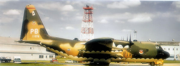 C-130 of the 41st Tactical Airlift Squadron during the Vietnam War - Pope Air Force Base, North Carolina.